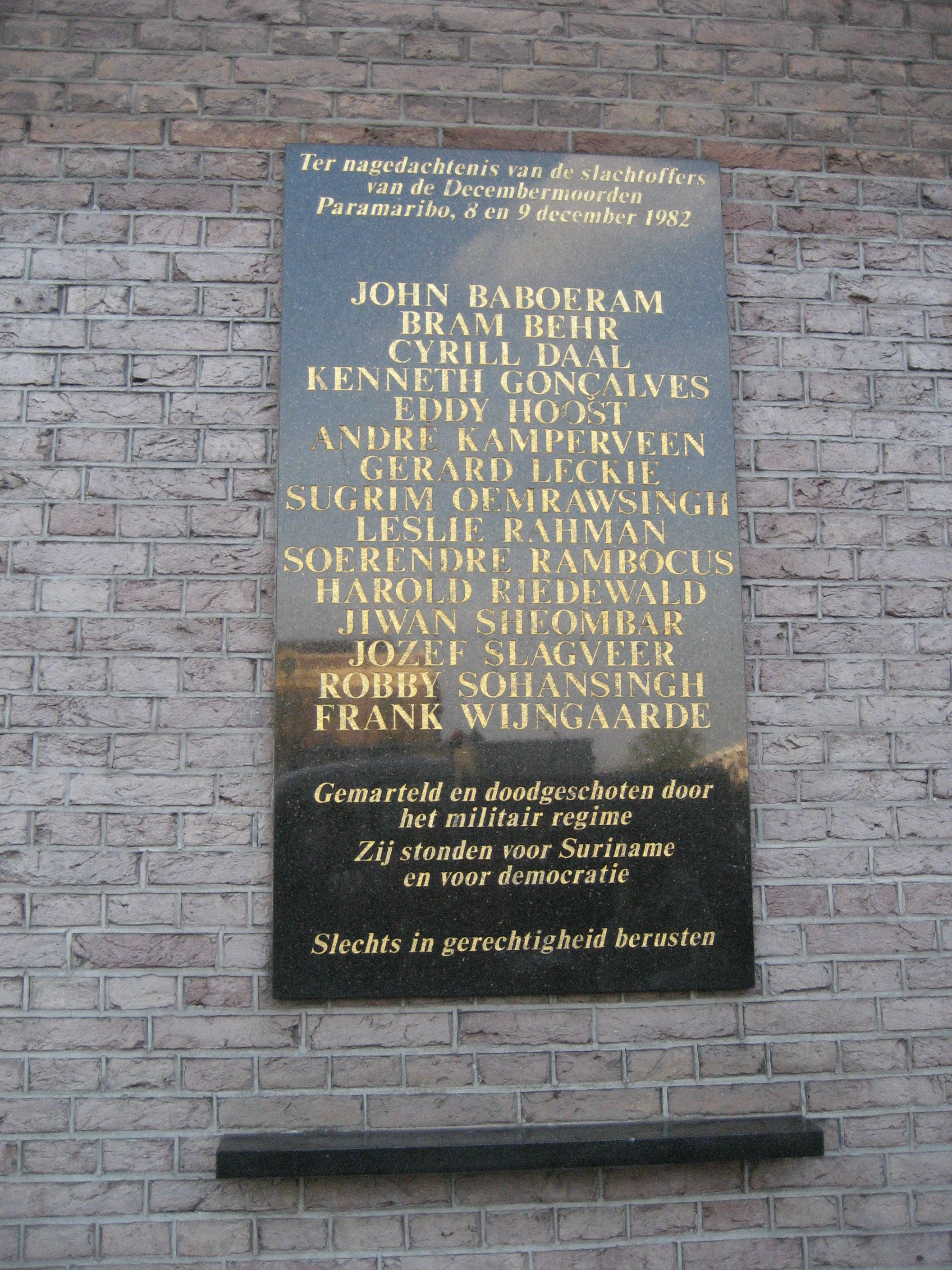 Monument to commemorate the killings of Surinam opposition leaders and prominent people in December 1982: John Baboeram, Bram Behr, Cyrill Daal, Kenneth Gonçalves, Eddy Hoost, André Kamperveen (FIFA vice-president), Gerard Leckie, Sugrim Oemrawsingh, Lesley Rahman, Surendre Rambocus, Harold Riedewald, Jiwansingh Sheombar, Jozef Slagveer. Robby Sohansingh, Frank Wijngaarde. Location: Mr. Visserplein, Amsterdam (The Netherlands)